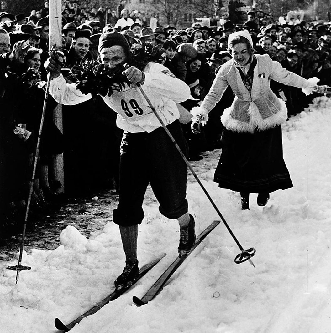 Swedish cross-country skier Nils "Mora-Nisse" Karlsson on his way to victory in the 1953 edition of Vasaloppet. He is just been handed the laurel wreath, right before the finishing line, by Anna-Greta Beus. Beus was the ""Kranskulla" of the 1953 race.